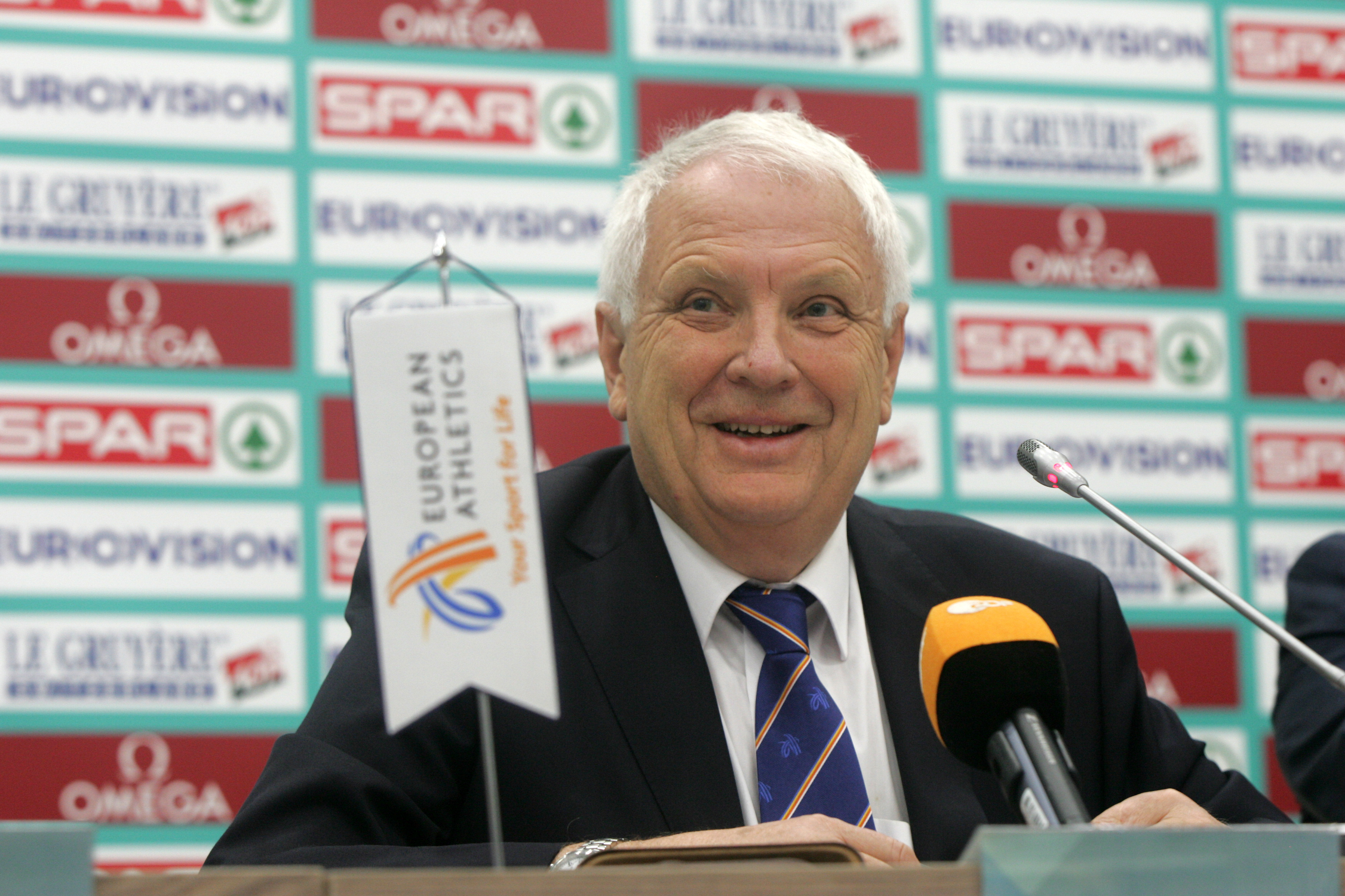 Svein Arne Hansen, President of the European Athletic Association since April 2015.